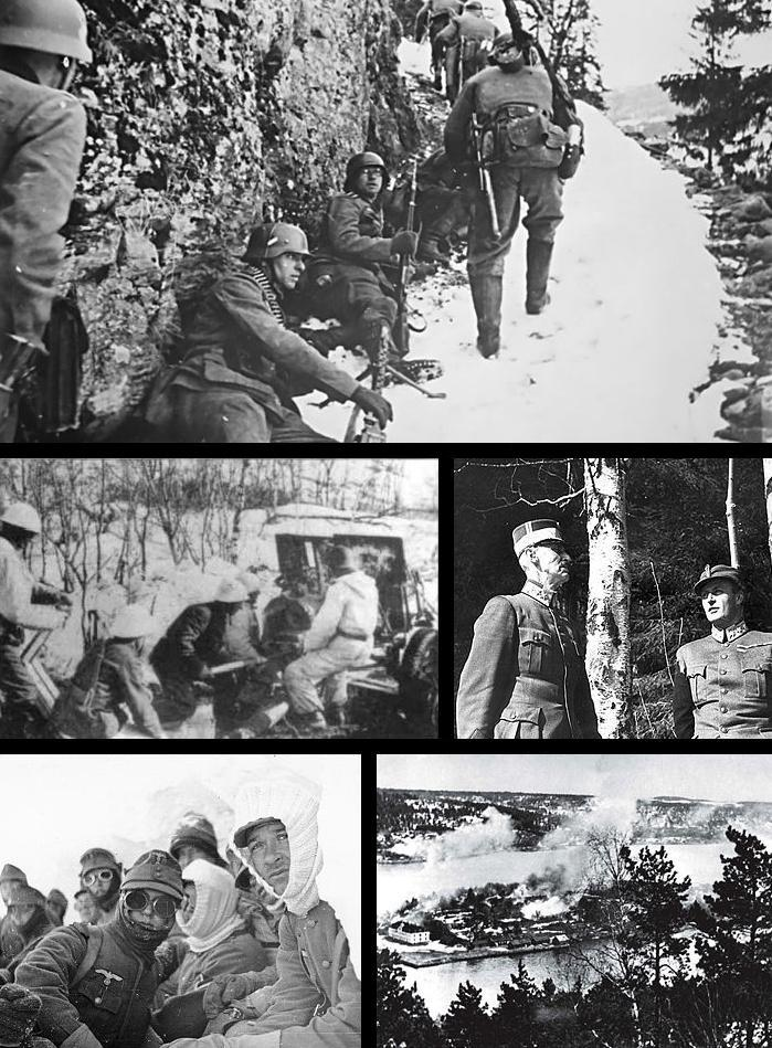 Montage of Operation Weserübung, the codename for Nazi Germany's assault on Denmark and Norway during World War II. All the images are from the battles in Norway.